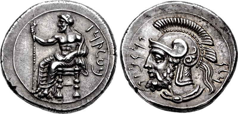 CILICIA, Tarsos. Pharnabazos. Persian military commander, 380-374/3 BC. AR Stater (23mm, 10.80 g, 1h). Struck circa 380-379 BC. Baaltars seated left, his torso facing, holding lotus-tipped scepter in extended right hand, left hand holding chlamys at his waist; B’LTRZ (in Aramaic) to right / Bearded head left, wearing crested Attic helmet, drapery around neck; PRNBZW (in Aramaic) to left, KLK (in Aramaic) to right.